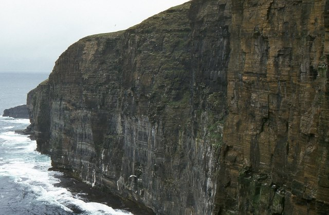 Costa Head, Orkney Sea cliffs, here 100 m high.